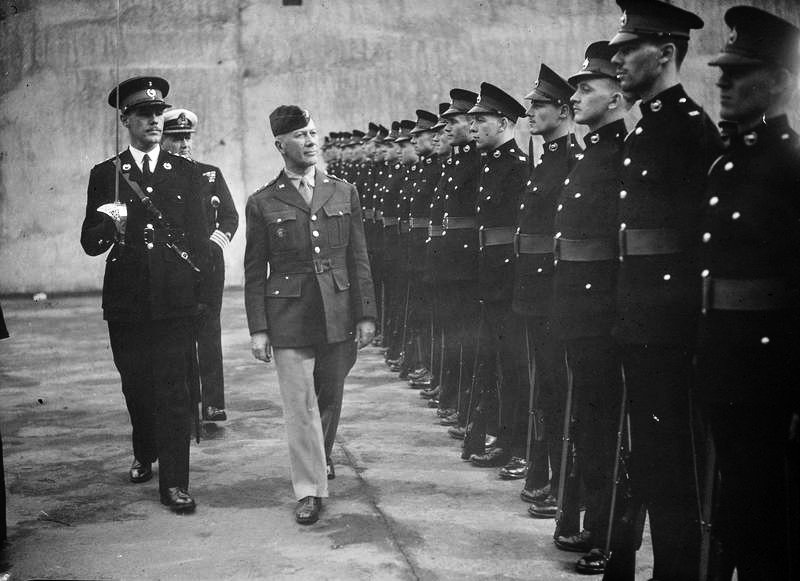 Major General Lloyd Fredendall Visits a British Aircraft Carrier. 14 January 1943, Oran, Major General Lloyd Fredendall of the United States Army in North Africa, Paid a Visit To the British Aircraft Carrier, HMS Formidable. Major General Fredendall inspecting the Royal Marine Guard of Honour on board HMS FORMIDABLE.